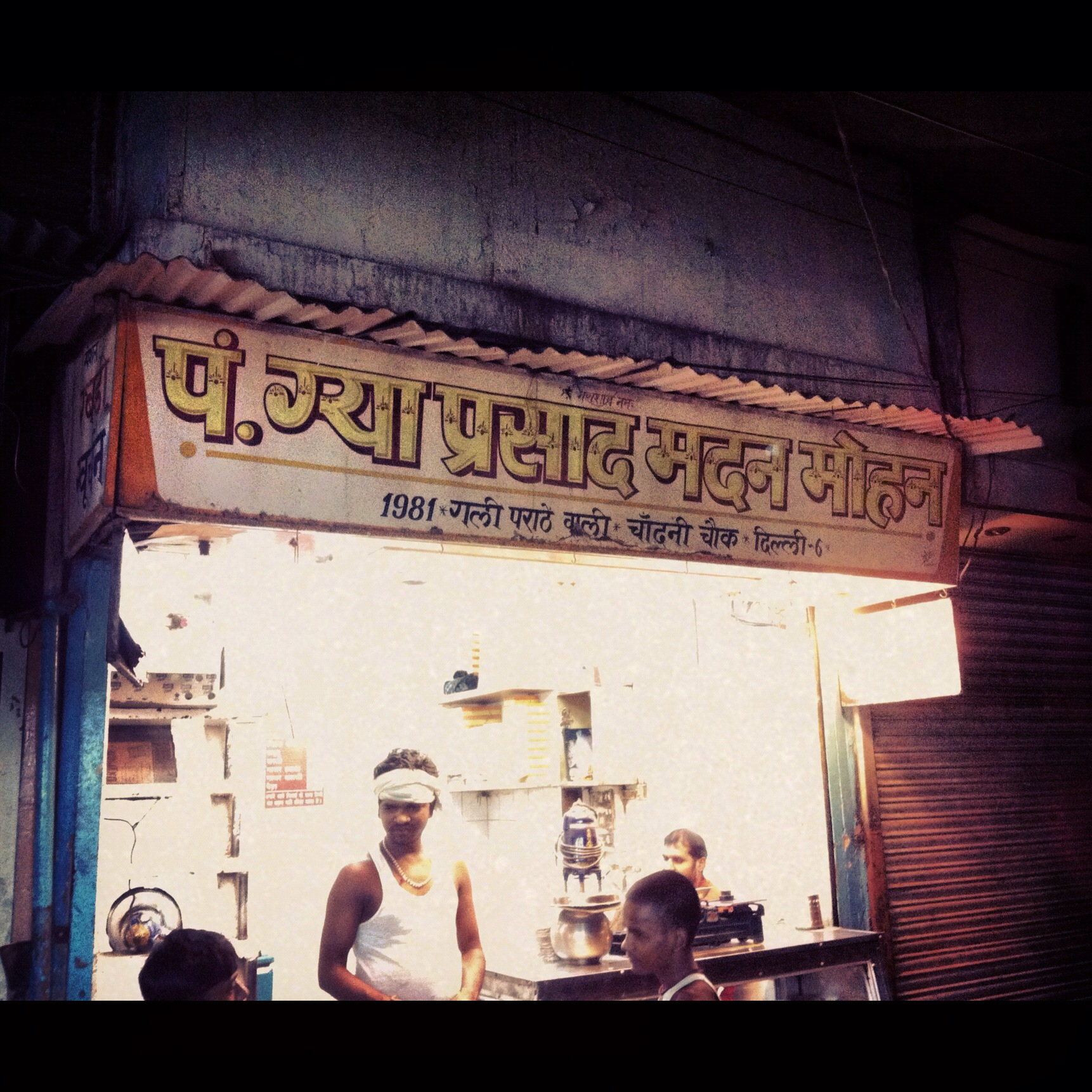 A paratha (parantha) stall in Parathe wali gali, Delhi, India.